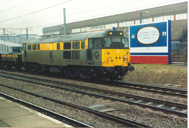 Peterborough.. A fairly old-timer, even then.